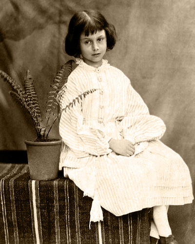 Alice Liddel and ferns: this was published as a miniature on the last page of the original Alice's Adventures Underground (1861).[1]